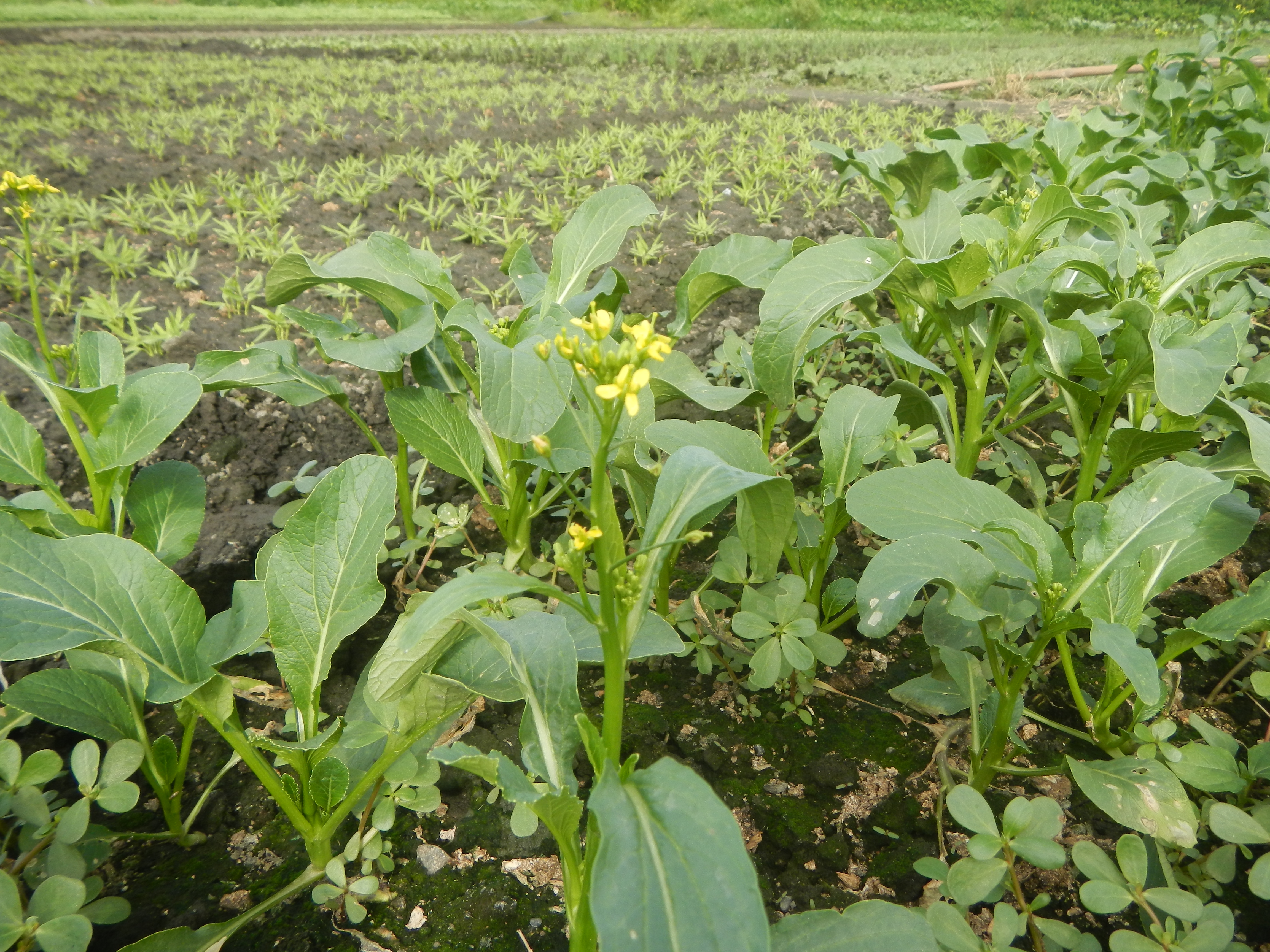 Vegetable plantations in Pulilan, Bulacan including the Ipomoea aquatica Ipomoea aquatica Kangkong Tsina LP Kangkong Ipomoea aquatica Forsk. Convolvulus reptans Linn. Bok choy Brassica rapa subsp. chinensis or Brassica rapa subsp. chinensis var. parachinensis Gai Lan Kai-lan Kailan Kena brocolli leaves broccoli cultivated for the leaves Chinese broccoli; Spinacia oleracea Spinach fields in Barangay Taal, Pulilan, Bulacan Vegetable plantations from the Pulilan-Baliuag interior National Road and towards along Pan-Philippine Highway, also known as the Maharlika "Nobility/freeman" Highway in Cagayan Valley Road (Note: Judge Florentino Floro, the owner, to repeat, Donor Florentino Floro of all these photos hereby donate gratuitously, freely and unconditionally all these photos to and for Wikimedia Commons, exclusively, for public use of the public domain, and again without any condition whatsoever).